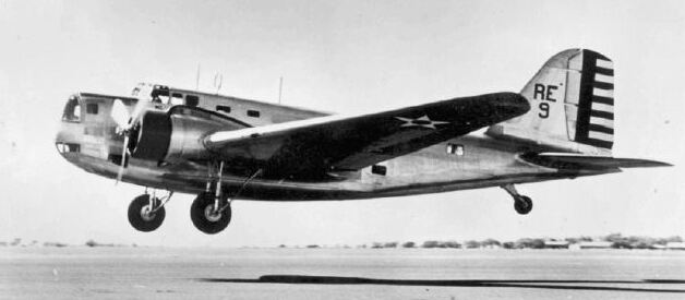 4th Reconnaissance Squadron - Douglas B-18 Bolo